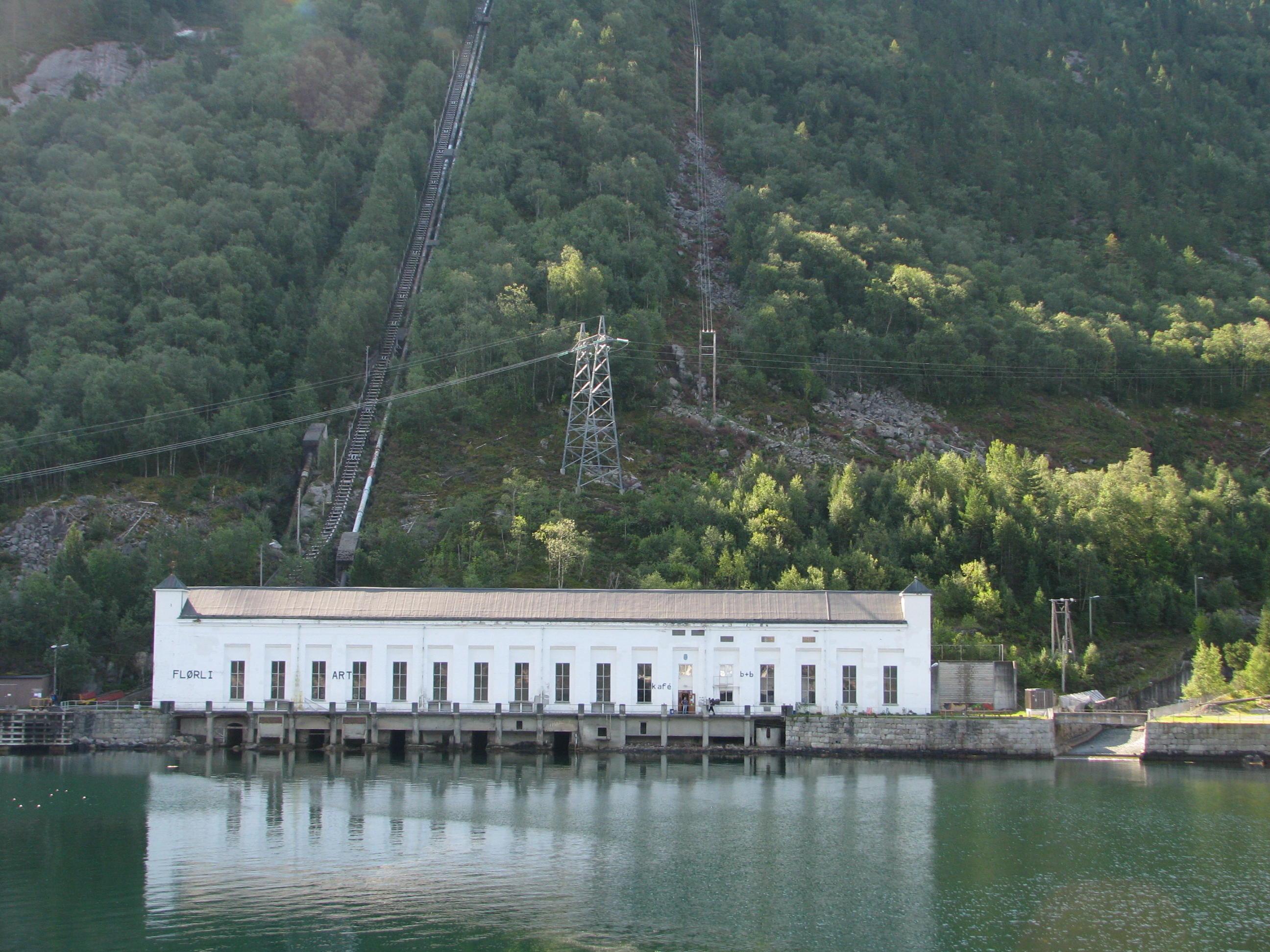 Flørli power station with a staircase with 4444 steps up to the lake at 740m providing the water for the tubes down to the station